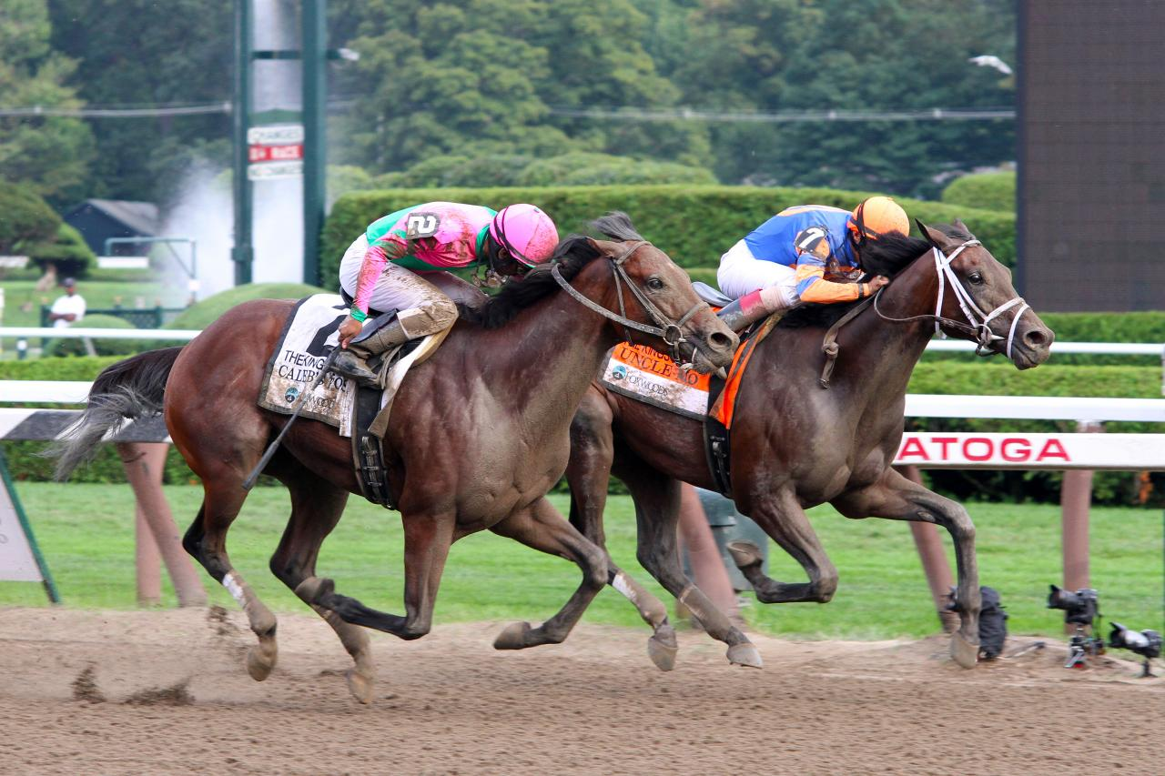 Saratoga Racetrack, NY, Uncle Mo was second.